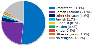 Pie chart of the religious groups in the United States